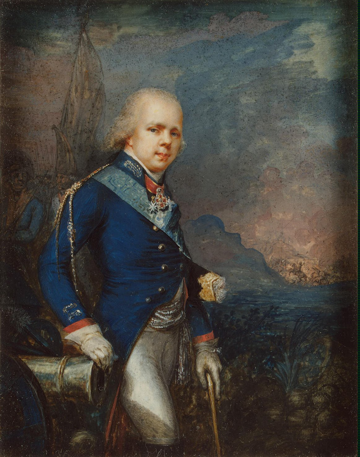 Portrait of Grand Duke Constantine Pavlovich of Russia in the Battle of Novi (1799)